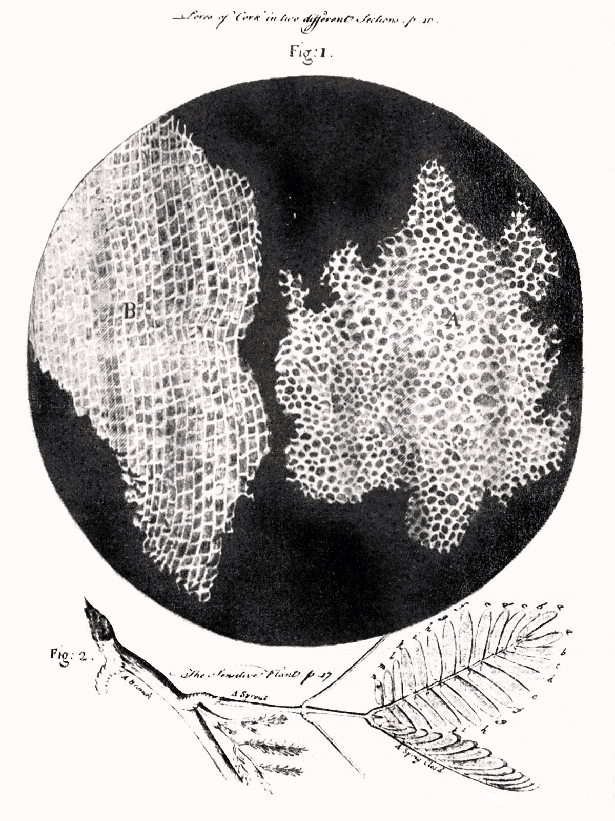 Suber cells and mimosa leaves